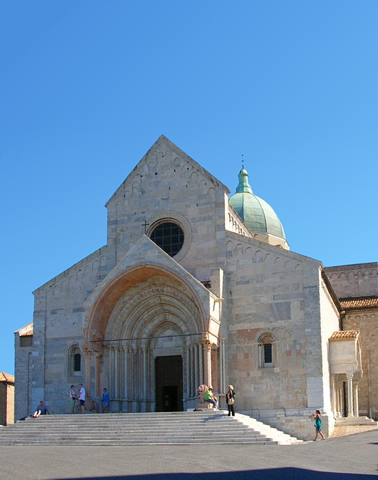 Ancano: Kathedraal San Ciriaco